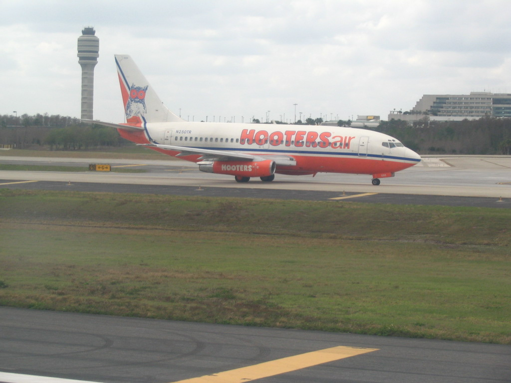 Hooters Air Boeing737-2K5(N250TR) at Orlando International Airport